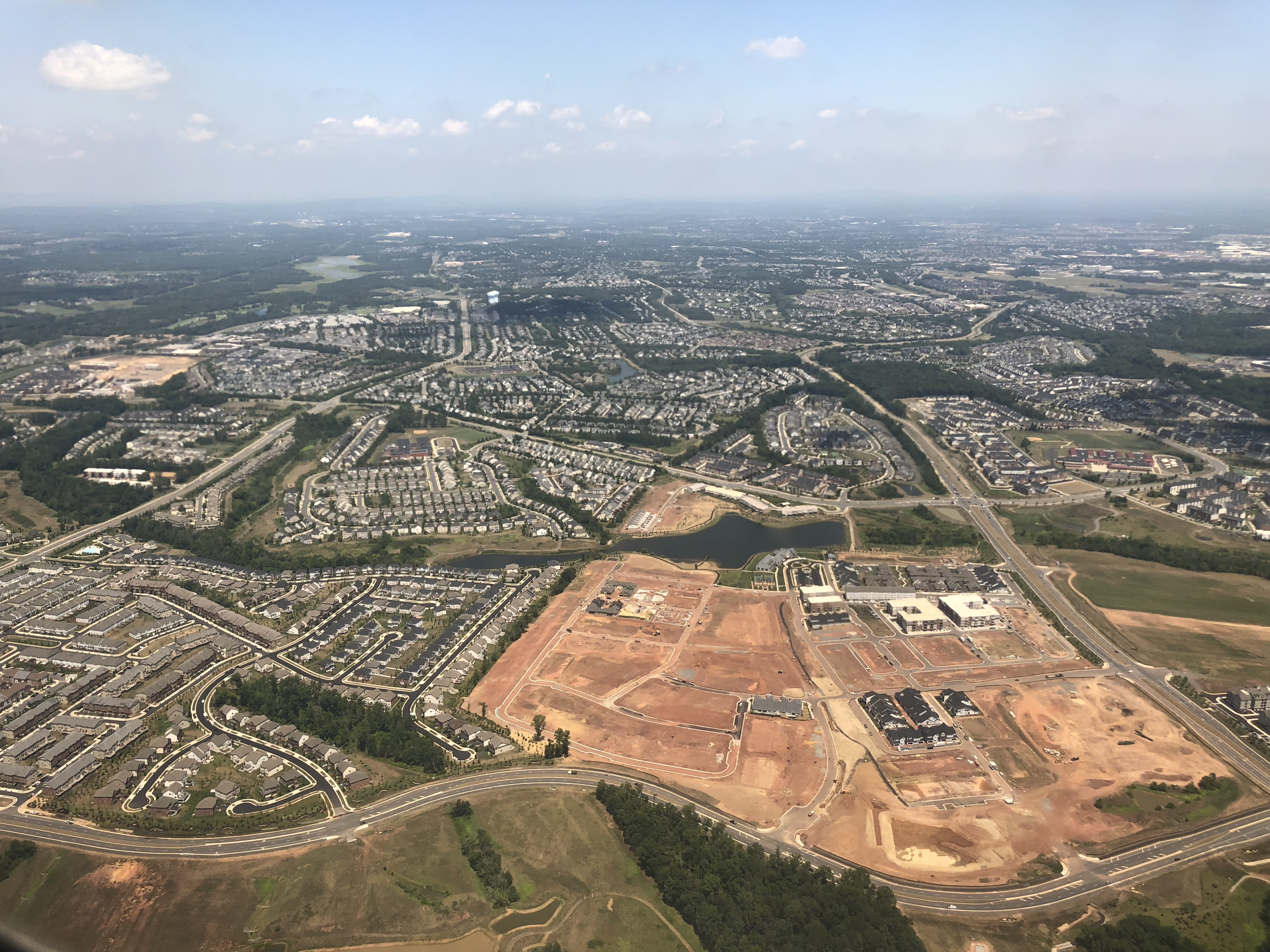 View north along the Loudoun County Parkway (right) and Belmont Ridge Road (left) as they pass through Brambleton and Loudoun Valley Estates in Loudoun County, Virginia, viewed from an airplane which just took off from Washington Dulles International Airport